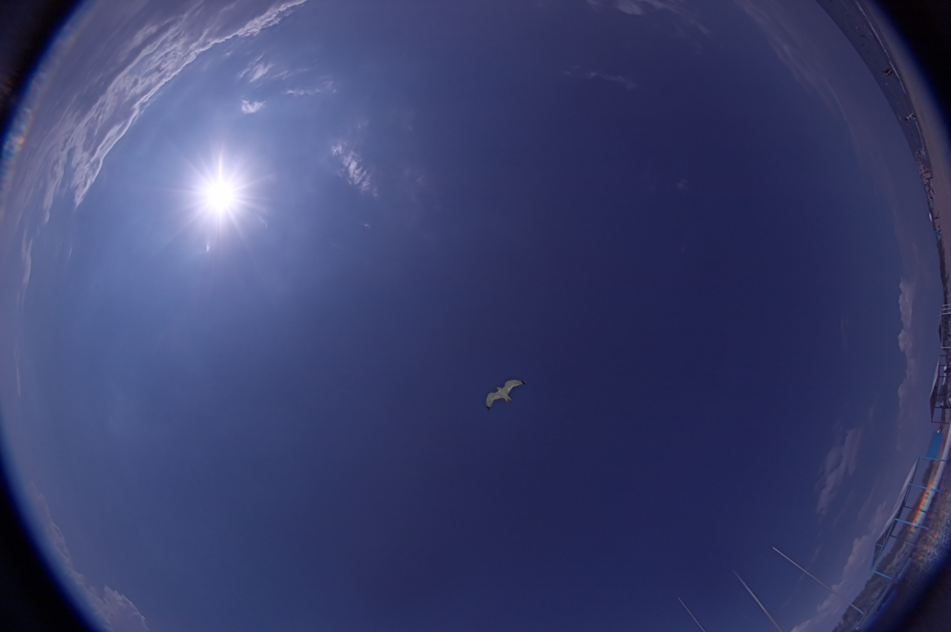 Peleng 8/3.5 full sky with the Sun. Seagull is lightened by flash